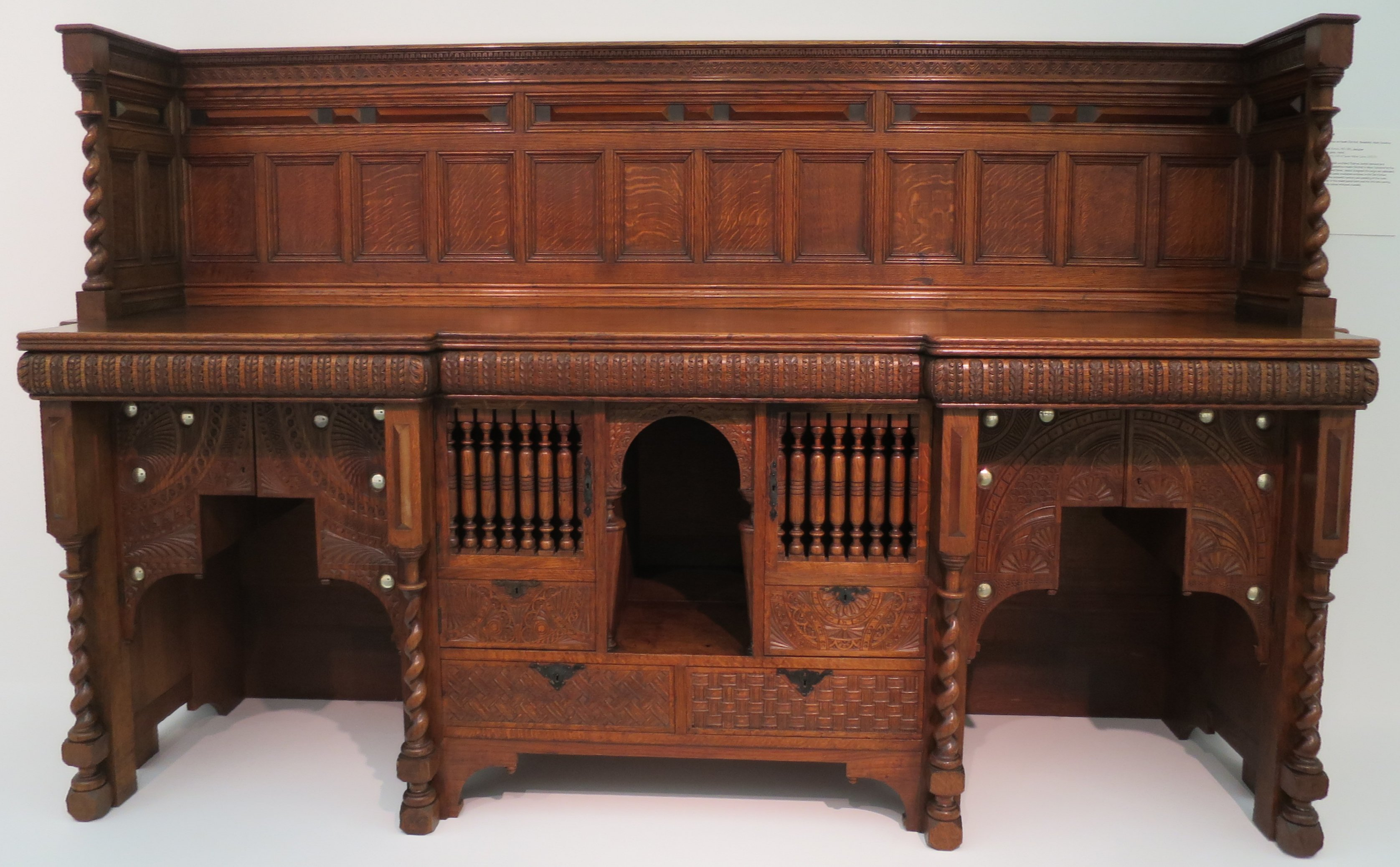 Sideboard, circa 1868, designed by Thomas Jeckyll (1827-1881) for the Oak Parlor at Heath Old Hall, Wakefield, West Yorkshire, England, Wolfsonian-FIU Museum